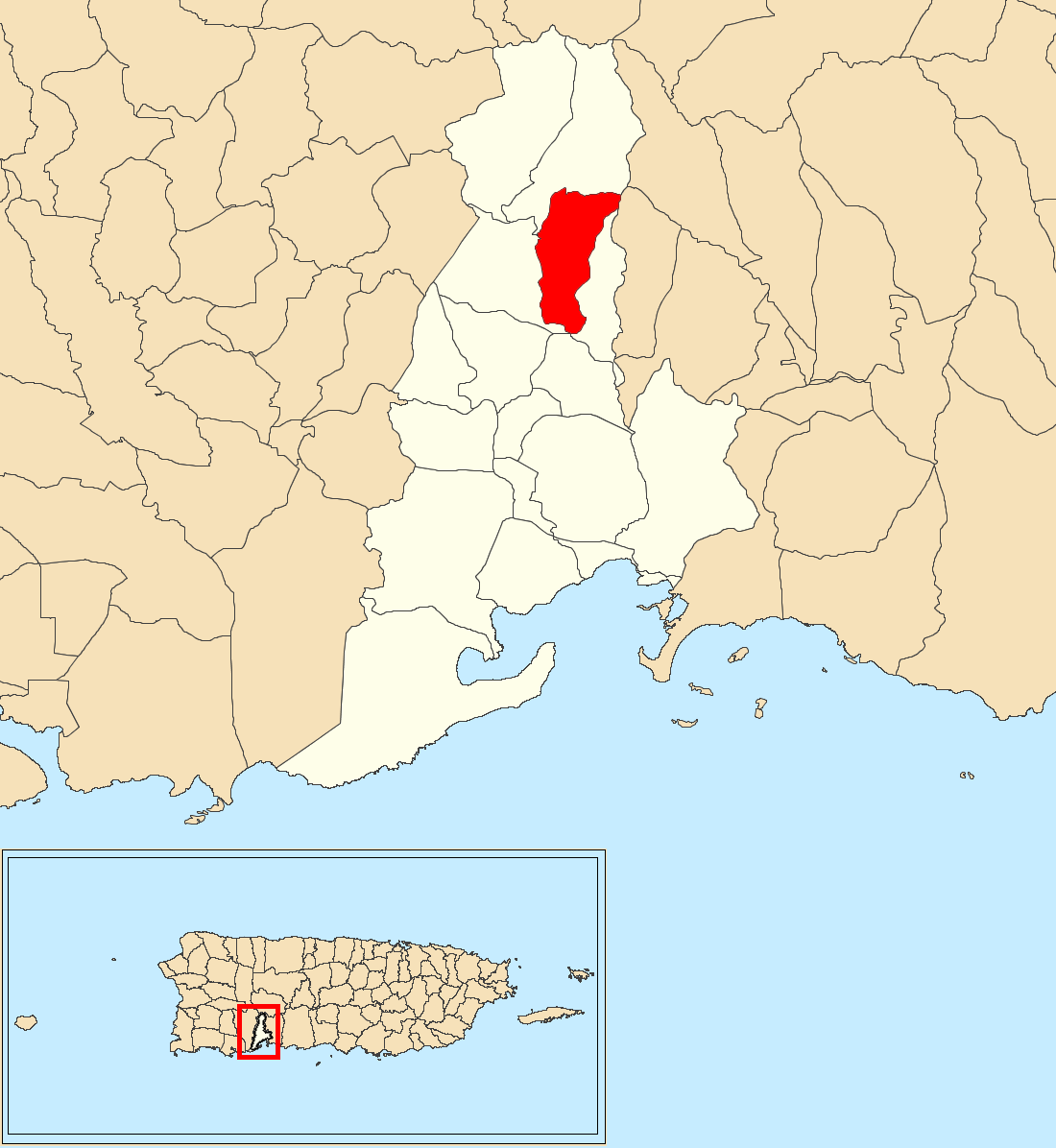 Quebrada Honda, Guayanilla, Puerto Rico locator map